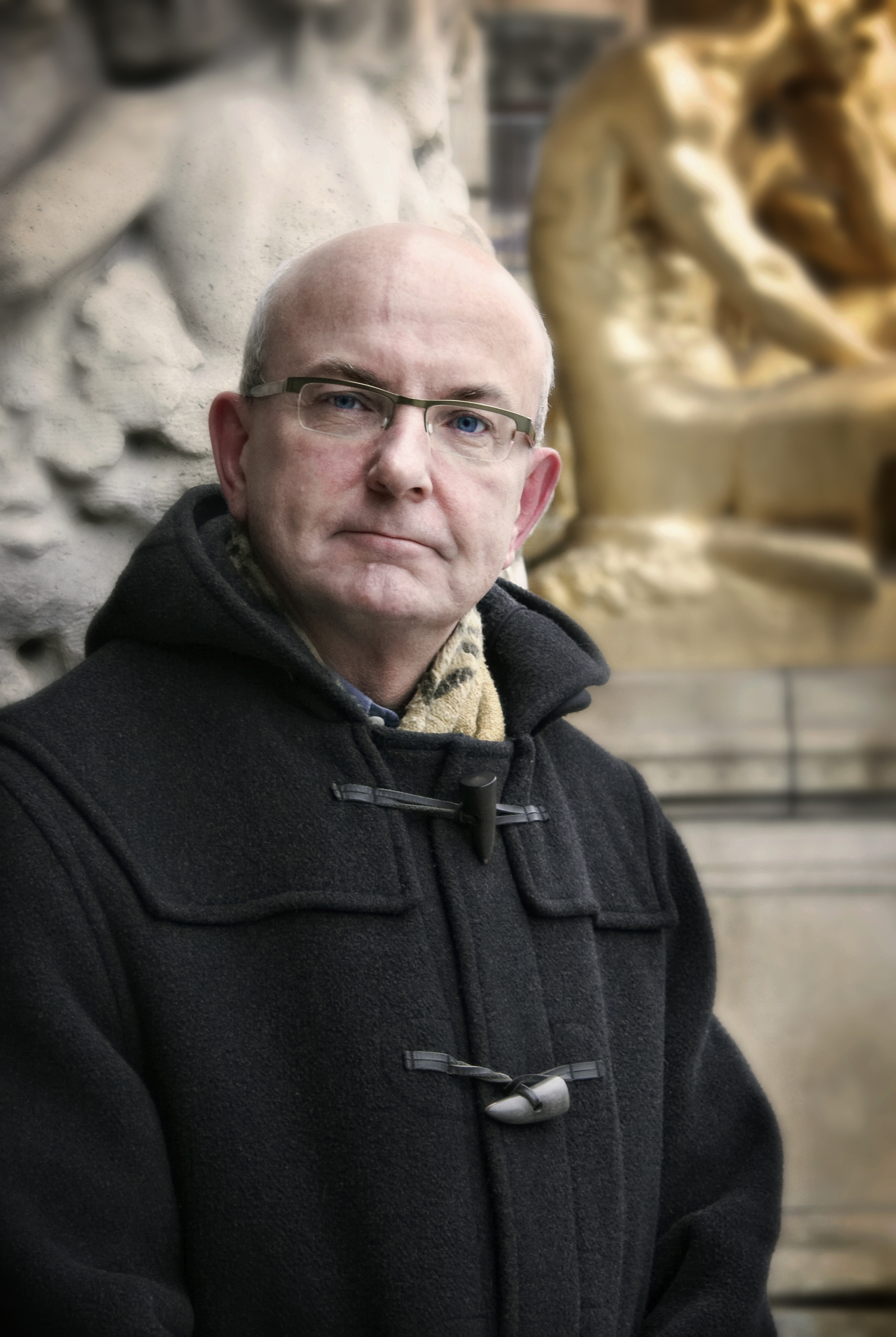 Peter Kadhammar, Swedish author